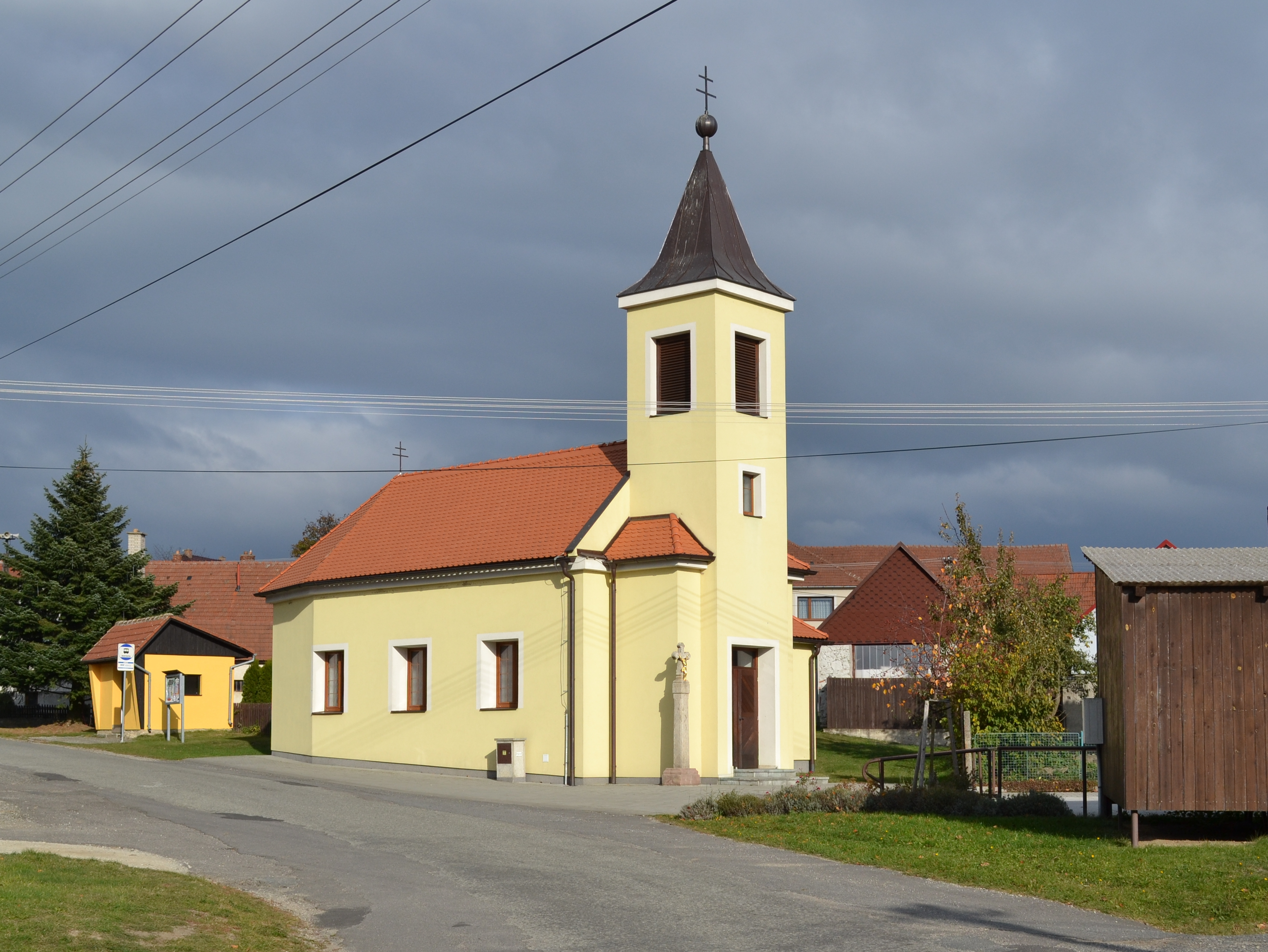 Chapel in Kadolec village.